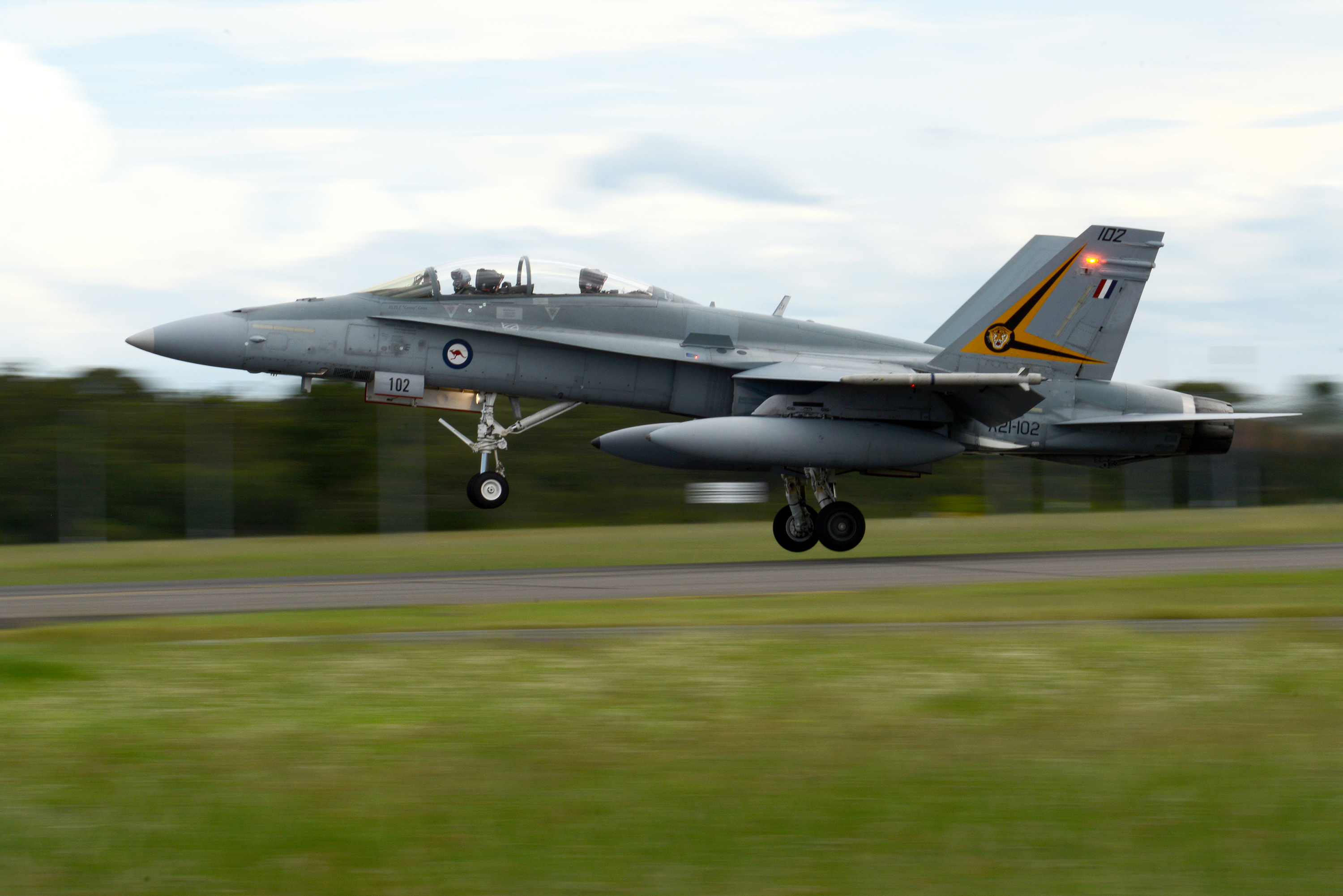 A Royal Australian Air Force F-18B Hornet takes off from RAAF Williamtown, during Exercise Diamond Shield 2017 in New South Wales, Australia, March 21, 2017. (U.S. Air Force photo by Tech. Sgt. Steven R. Doty)